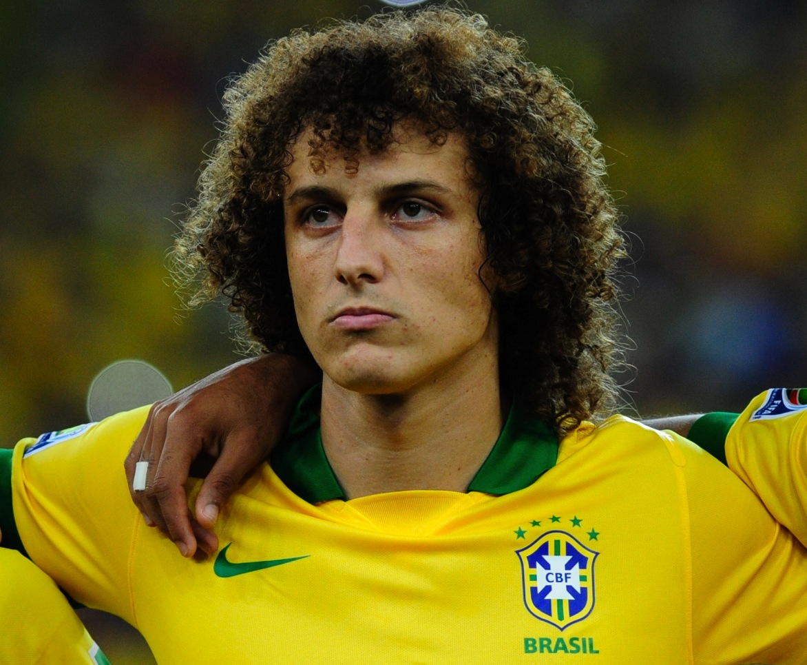 David Luiz before the 2013 FIFA Confederations Cup Final